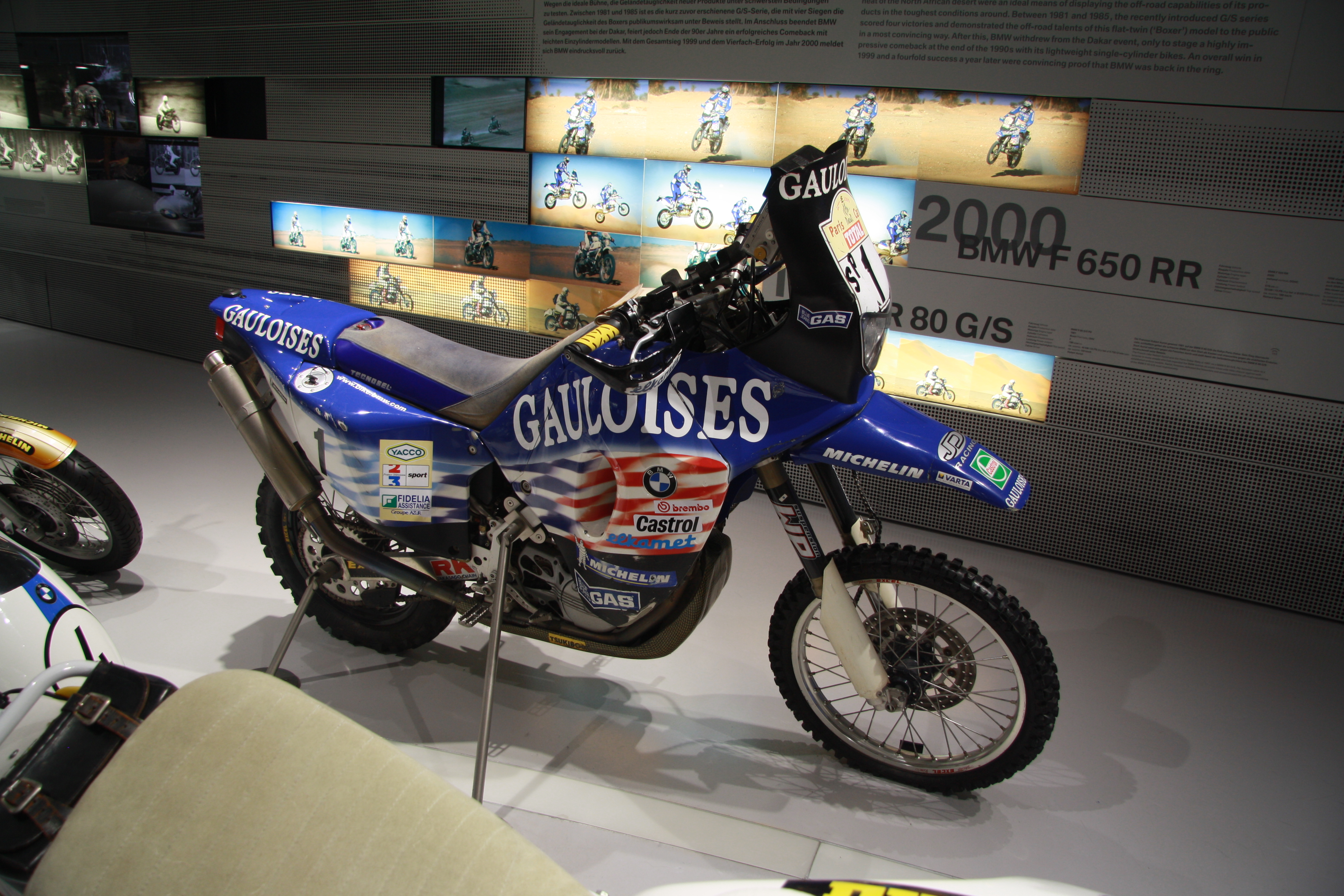 BMW F 650 R in BMW-Museum in Munich, Bayern.